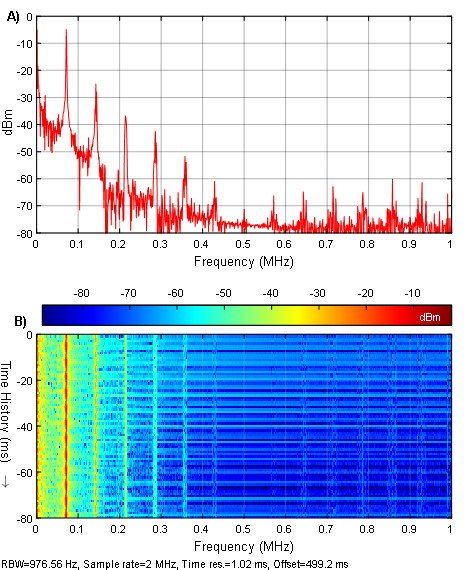 The figure shows two figures for EMI output:one spectrum and one spectrogram.